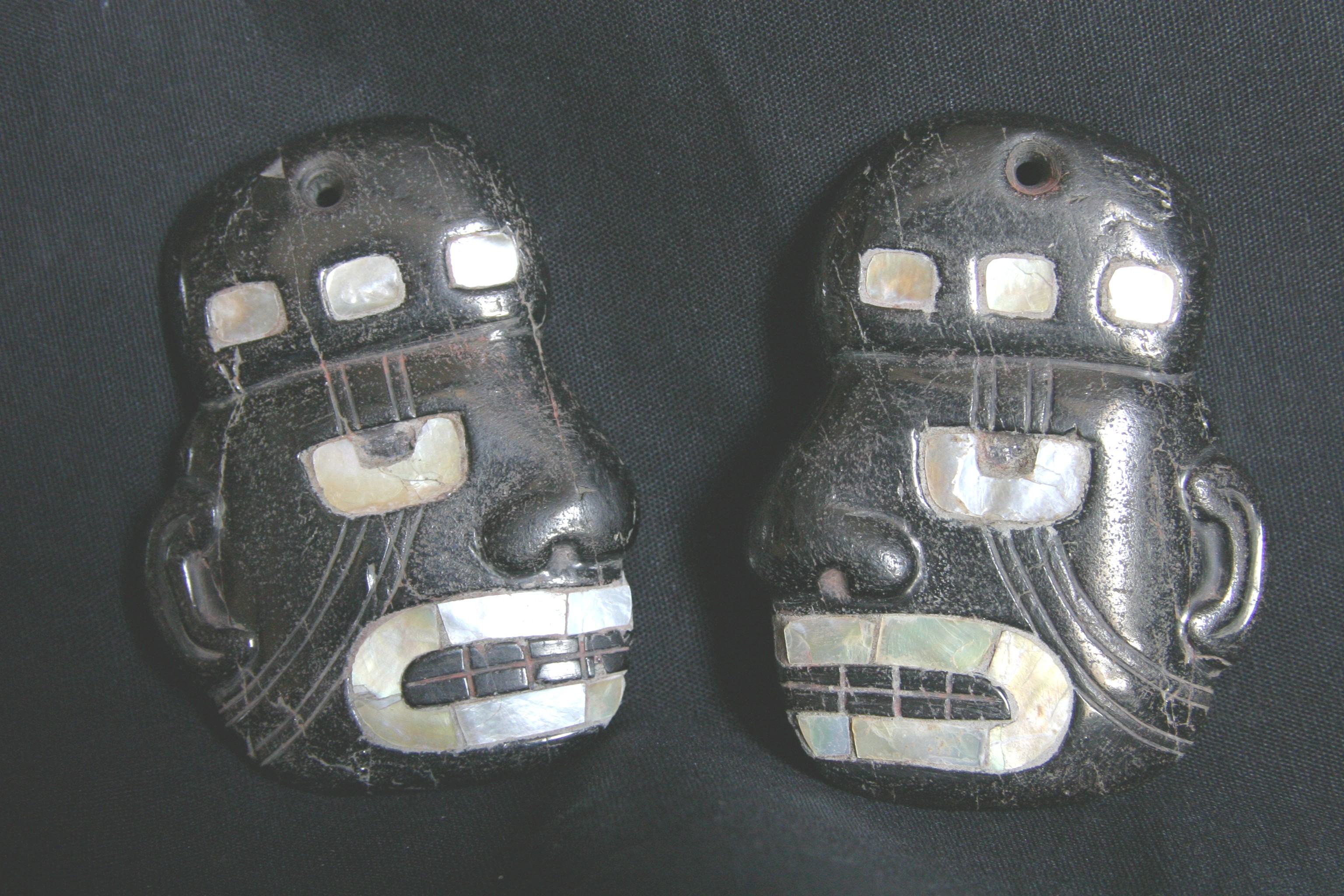 pendants. Sechin